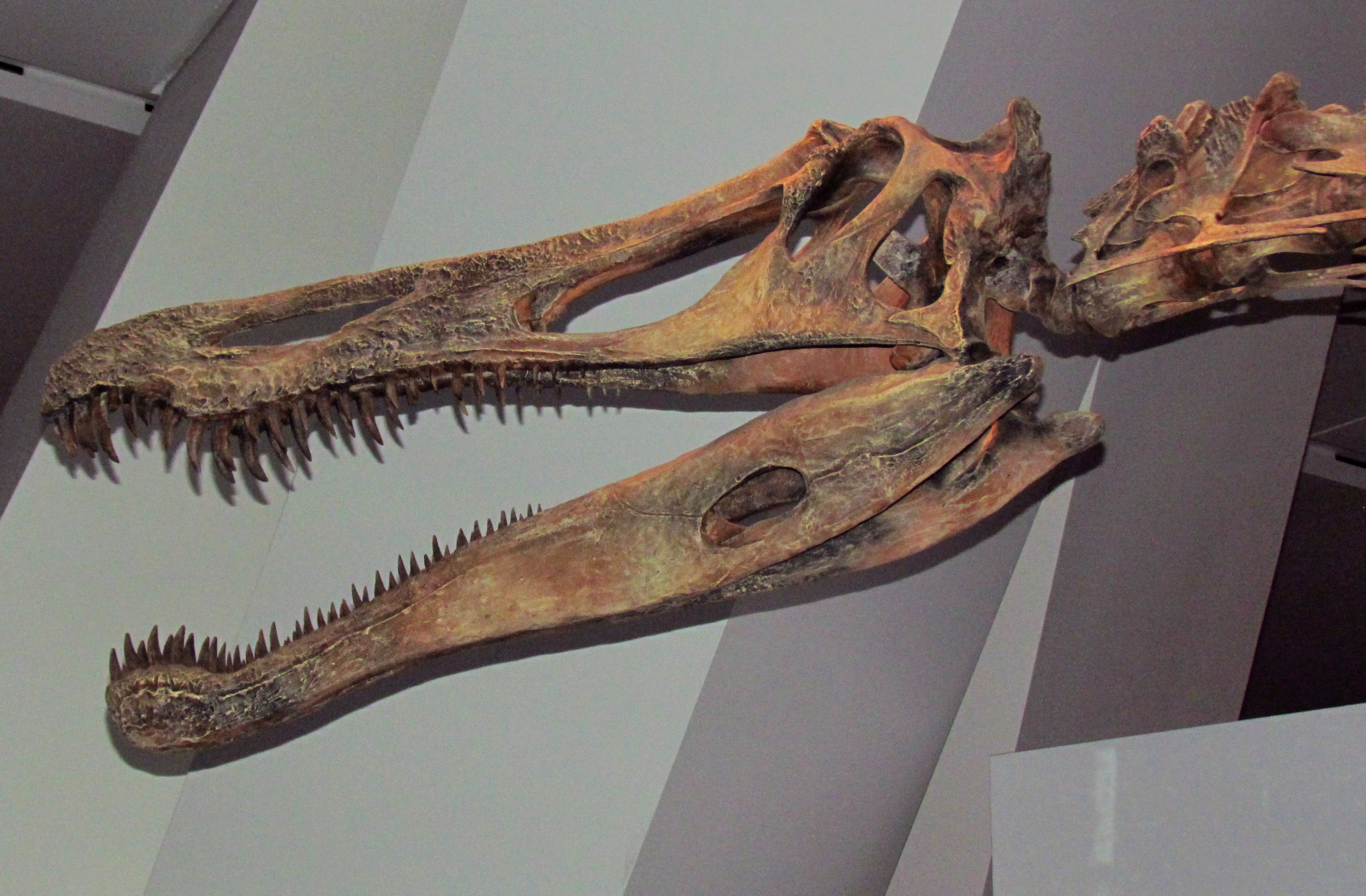 Suchomimus tenerensis, cast of skull, Royal Ontario Museum, Toronto, Ontario, Canada